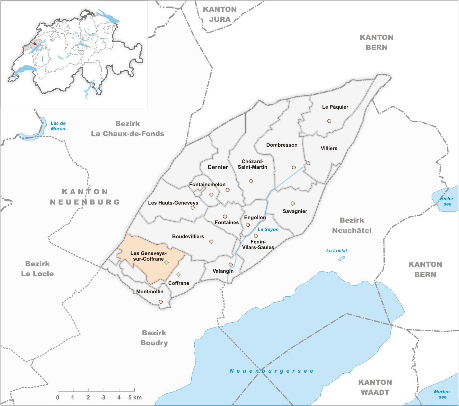 Municipality Les Geneveys-sur-Coffrane